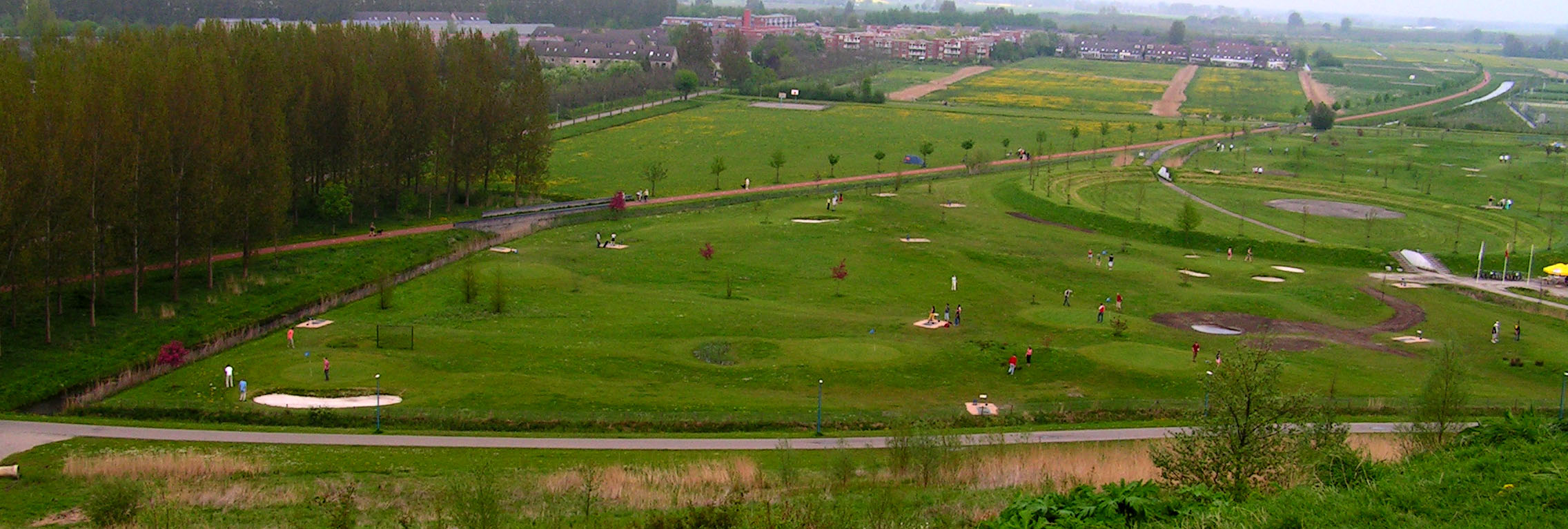 Pitch and Putt course in Groningen, The Netherlands